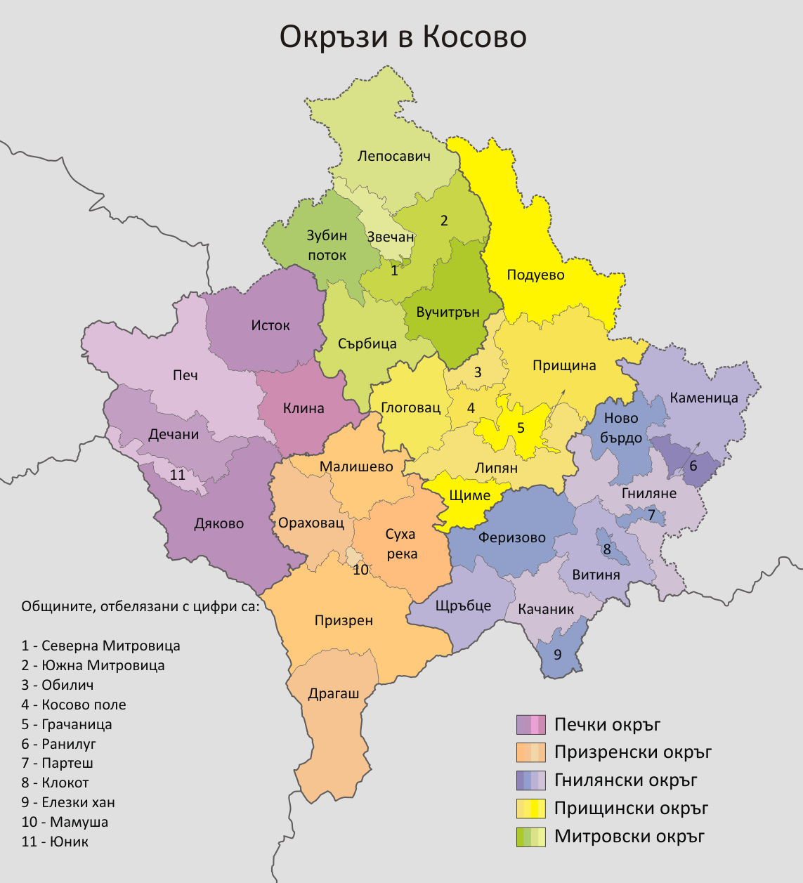 Map of districts of Kosovo in Bulgarian.